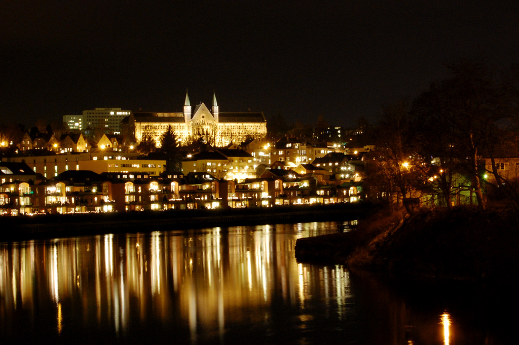 The main building at the NTNU Gløshaugen campus in Trondheim, as seen from Gamle Bybro by night